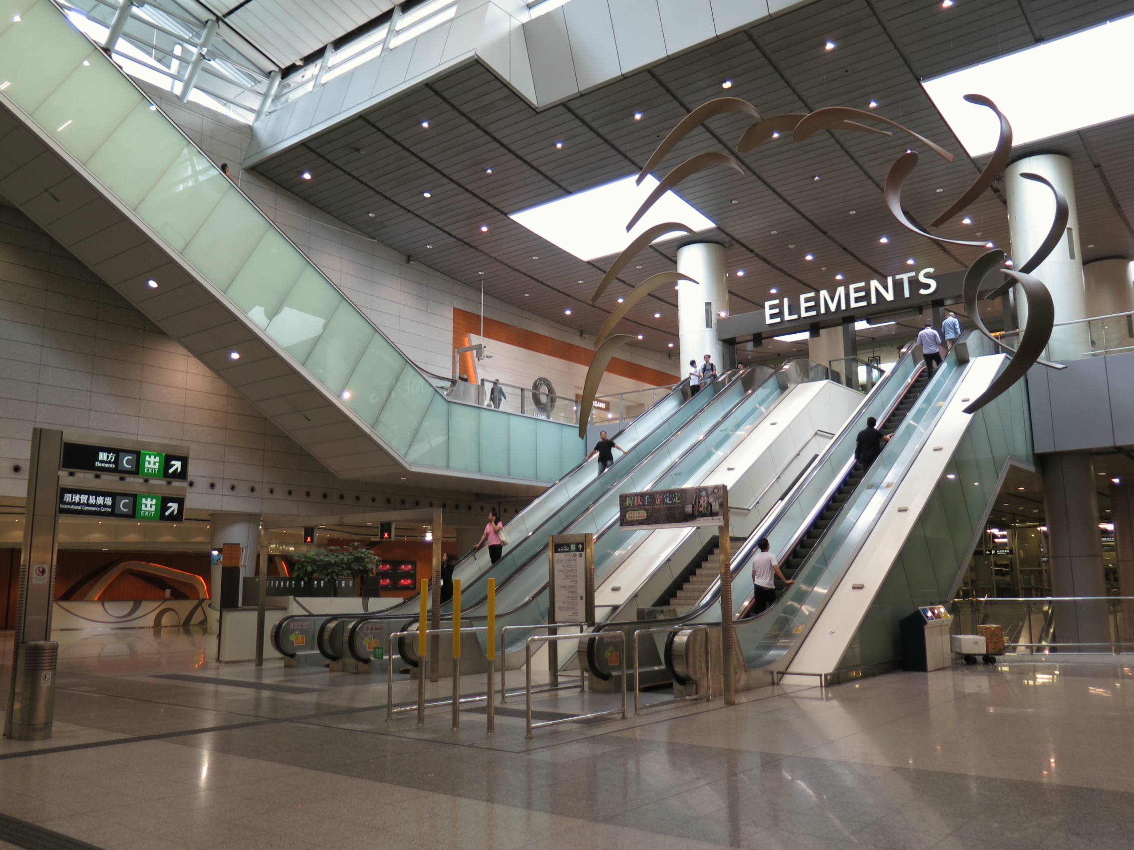 Kowloon Station Exit C